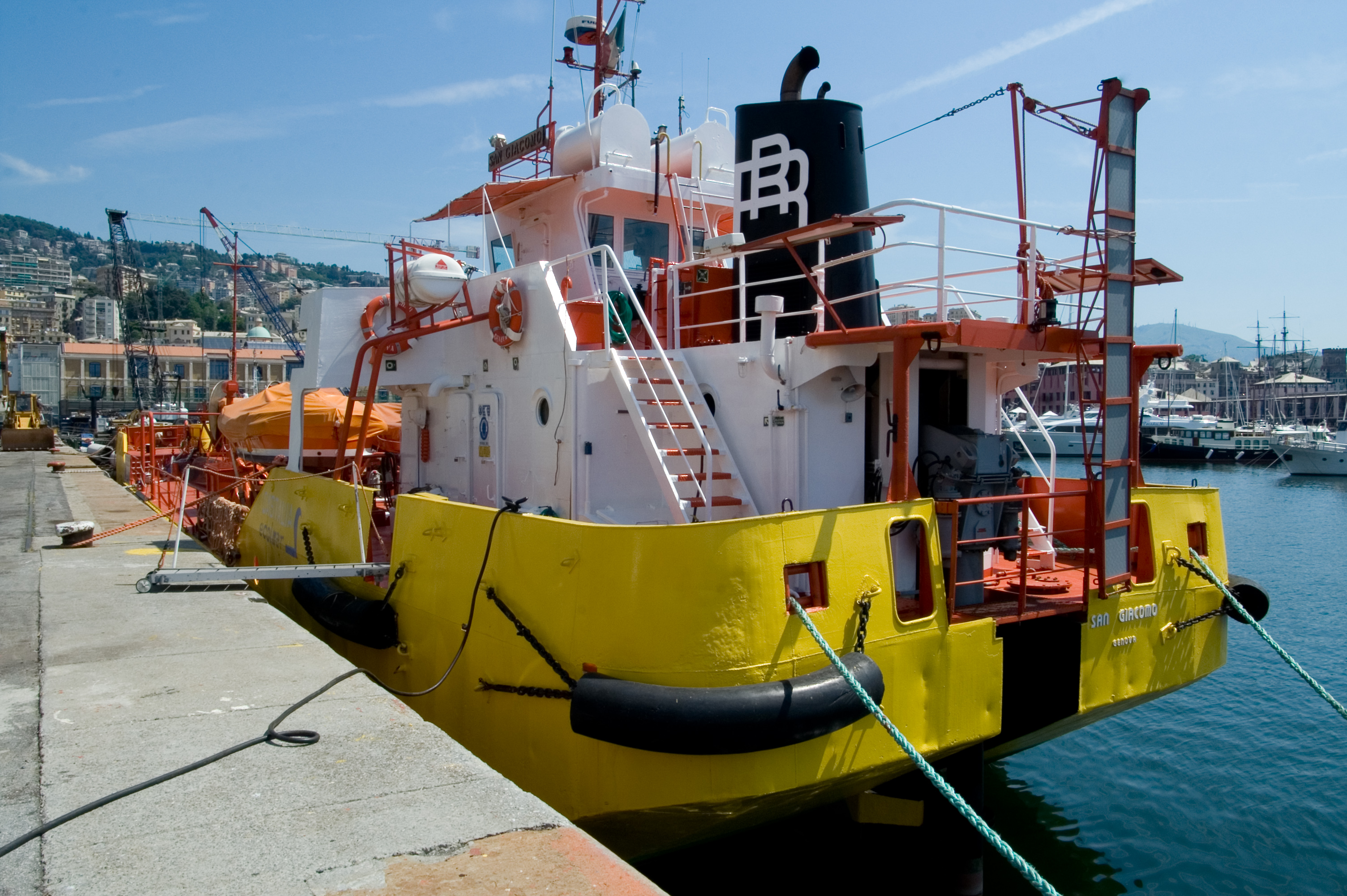 The San Giacomo, an Italian oil recovery tanker, at quay in Genova, Italy.